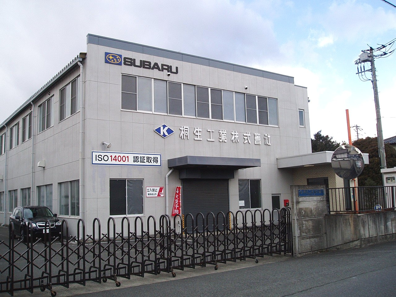 Main Factory of Kiryu Kougyo Co., Ltd. located in Aioi-cho, Kiryu, Gunma, Japan.